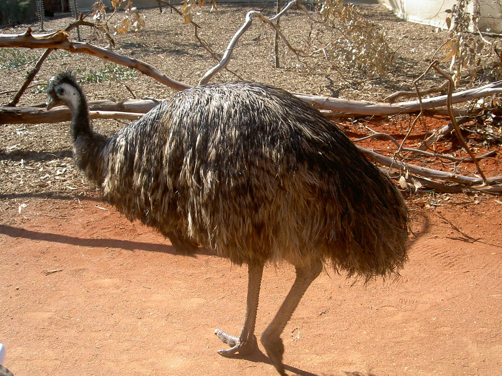 Emu, Carlton South, Melbourne